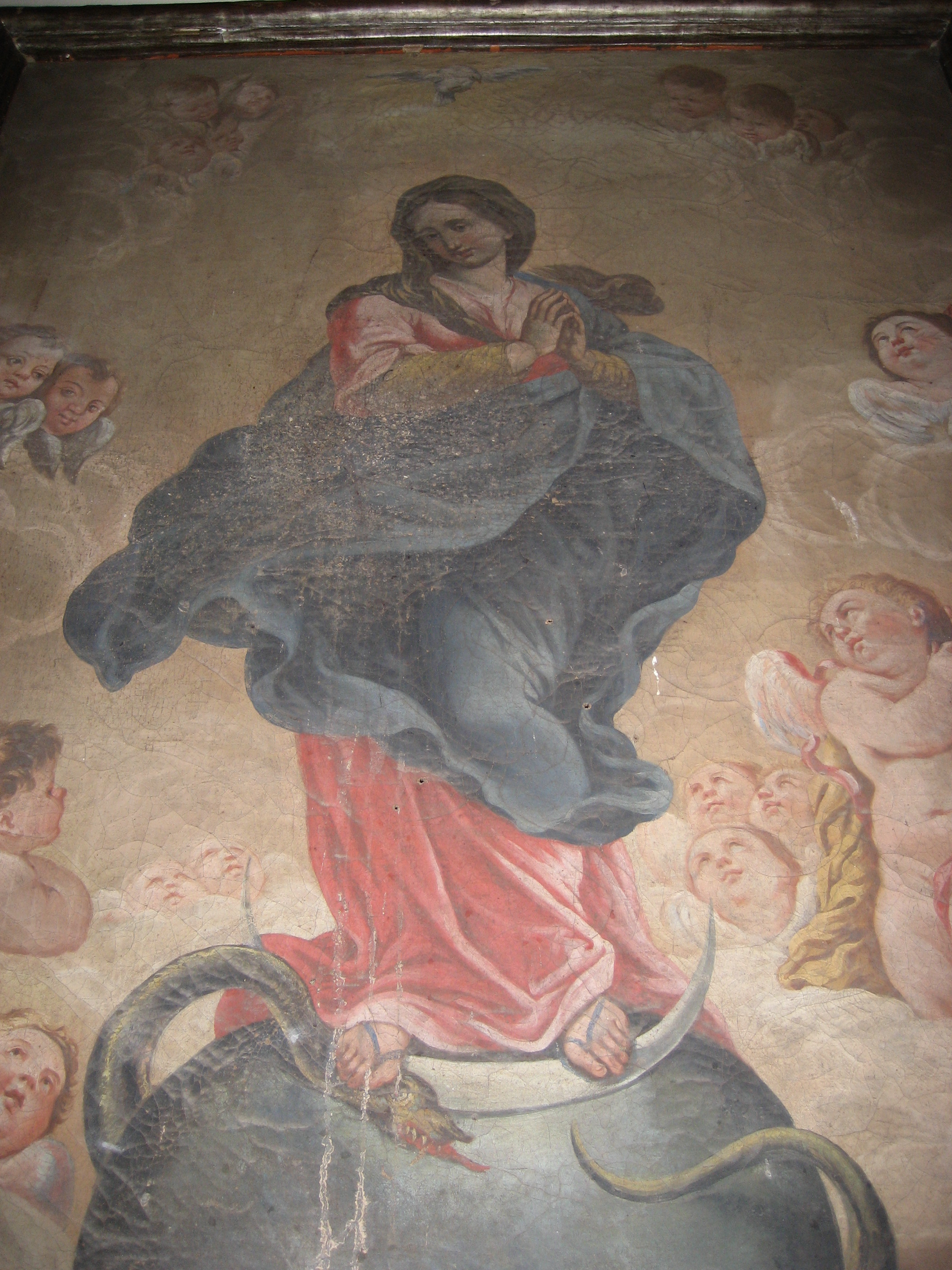 Cloth represents the immaculate Conception in the anti sacristy of the Cathedral. It would be of Neapolitan school, but according to some you/he/she could be work of the painter atriano Giuseppe Prepositi (1730 - 1790), one of the best students of Francesco Solimena.